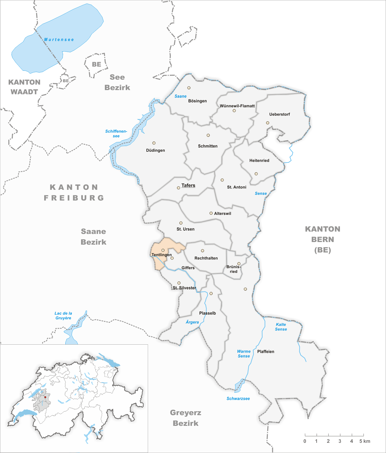 Municipality Tentlingen